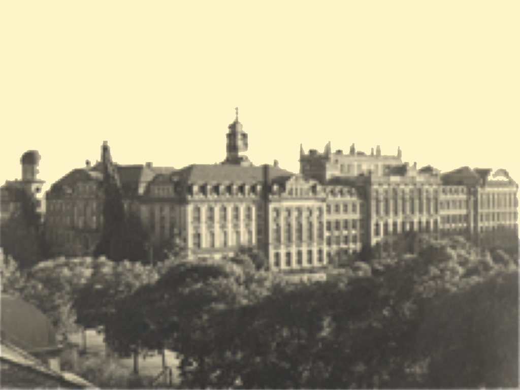 Picture of about 1920: University of Frankfurt am Main, Hesse, Germany, founded in 1912, opened in 1914.